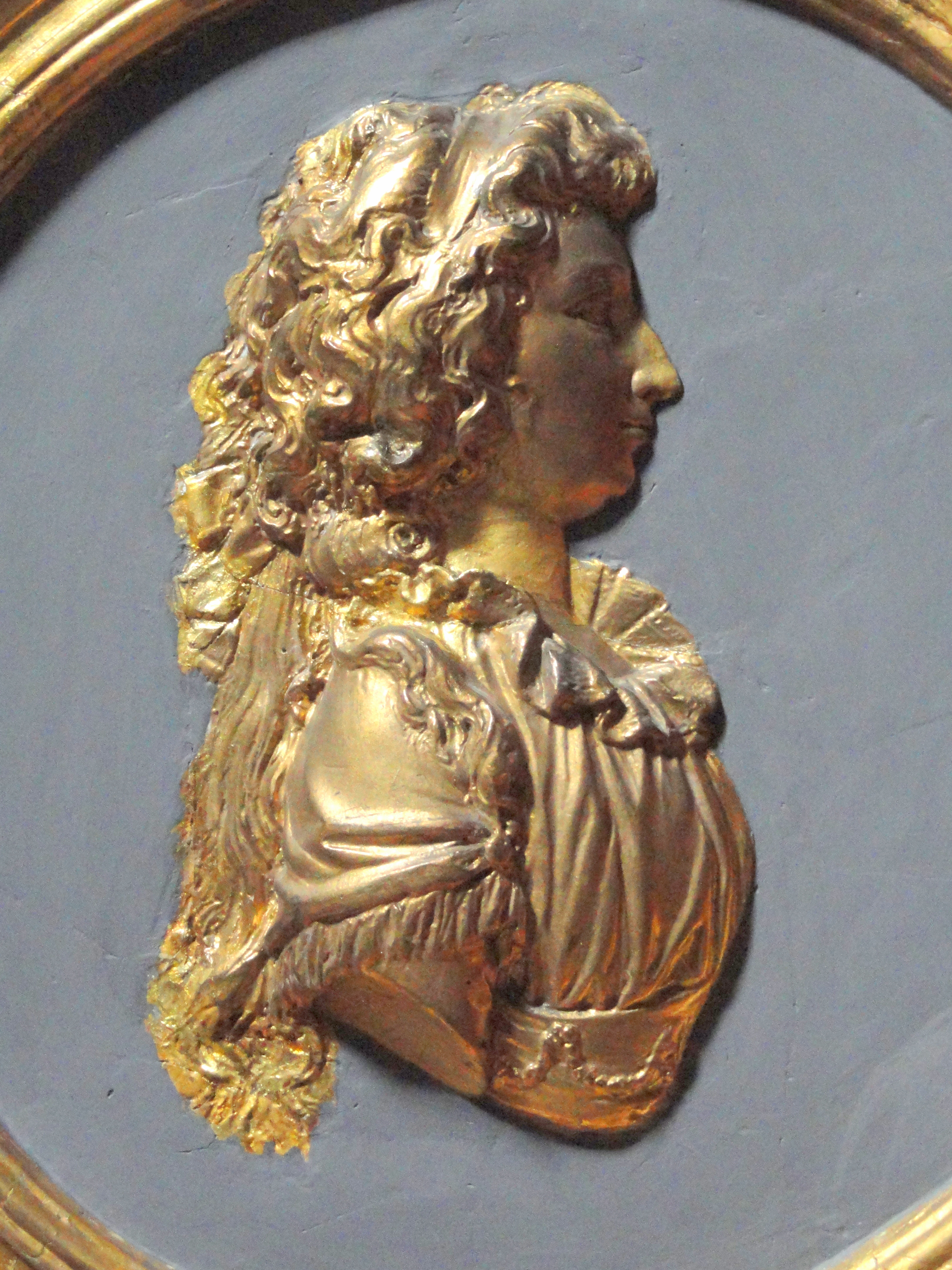 Sculpted relief by Bertel Thorvaldsen in Thorvaldsens Museum, Copenhagen, Denmark. This artwork is now in the public domain because the artist died more than 70 years ago.